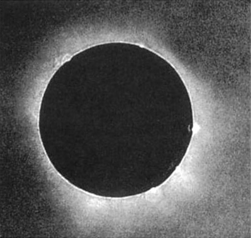 Johann Julius Friedrich Berkowski made the first solar eclipse photograph on July 28, 1851, also using the daguerrotype process, at the Royal Observatory in Königsberg, Prussia (now Kalinigrad in Russia). Berkowski, a local daguerrotypist, observed at the Royal Observatory. A small 6-cm refracting telescope was attached to the 15.8-cm Fraunhofer heliometer and a 84-second exposure was taken shortly after the beginning of totality.